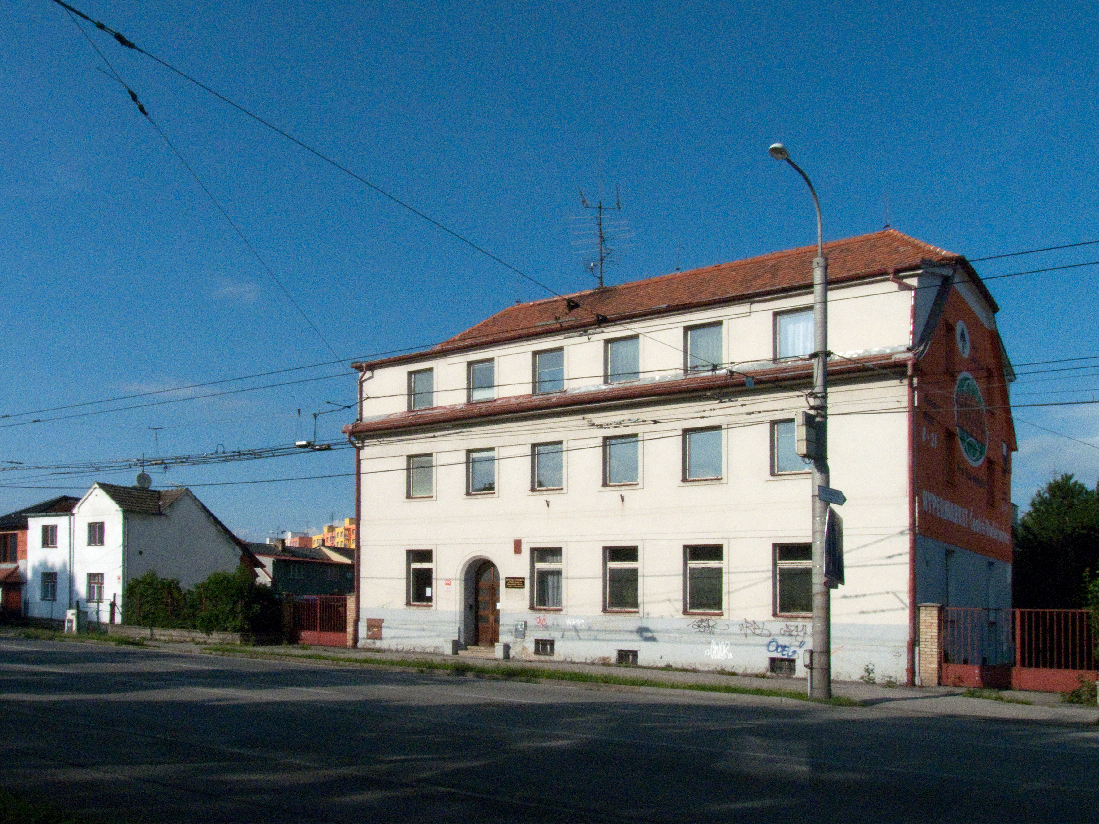 Pedagogical College central library of South-Bohemian University in Husova St., Čtyři Dvory, part of České Budějovice, Czech Republic